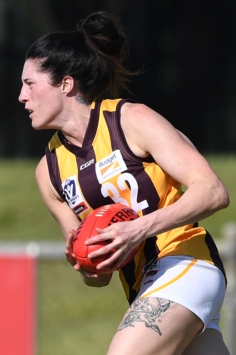 Kim Ebb of Hawthorn during the 2018 VFLW round 15 match between NT Thunder and Hawtorn at TIO Stadium on Saturday, 18 August 2018 in Darwin, Australia.